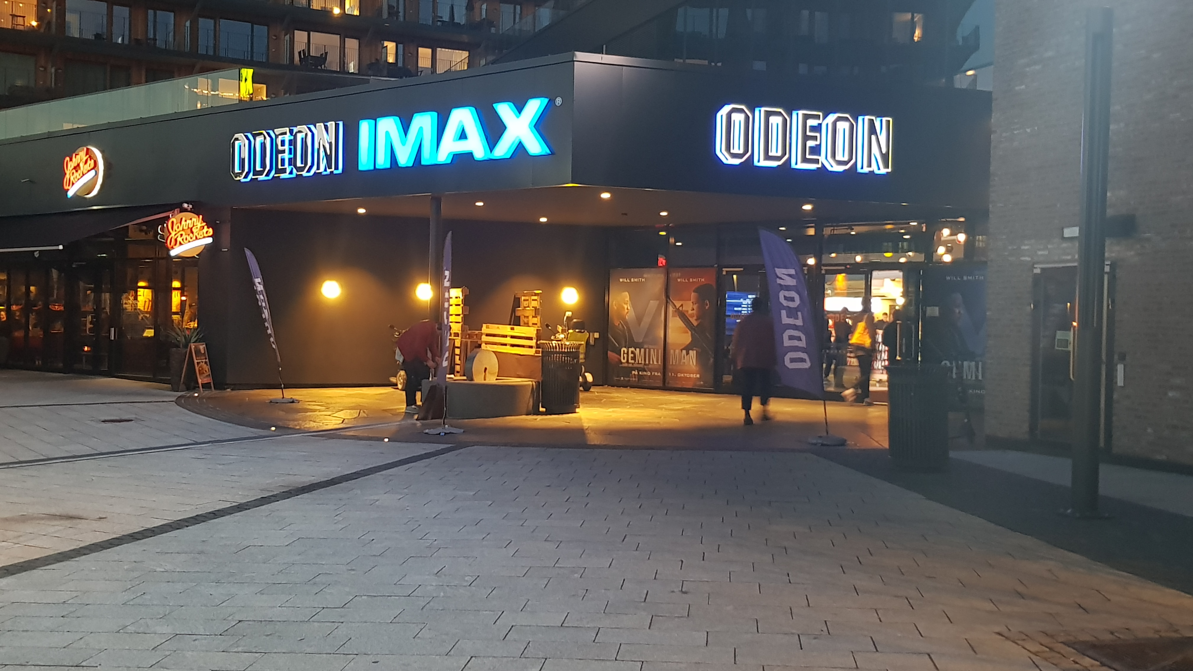 Odeon Oslo entrance